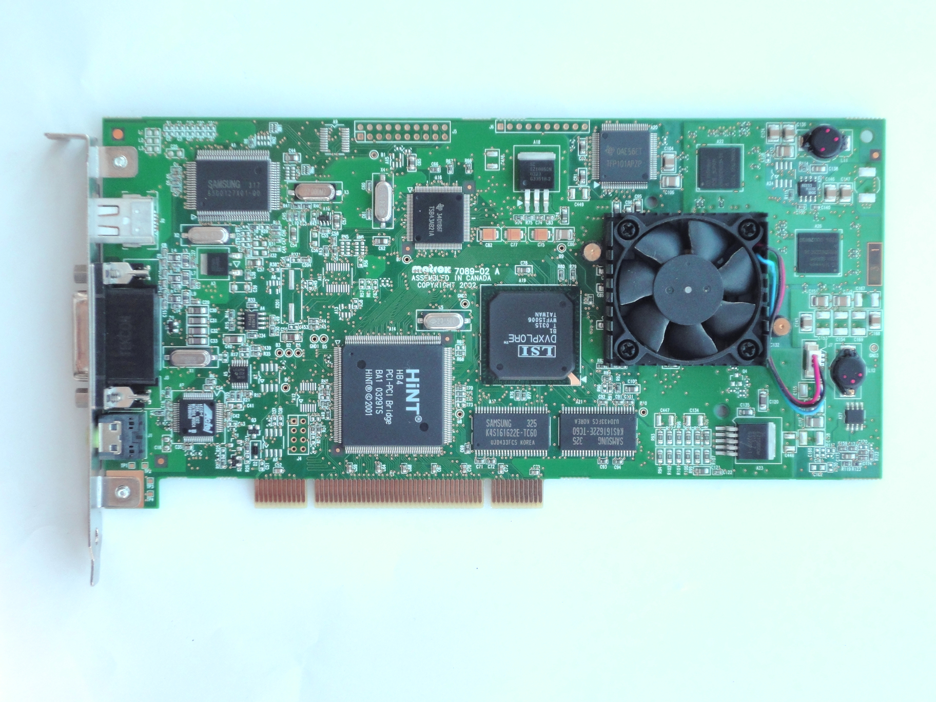 copy free.